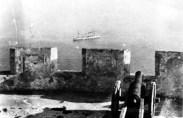 German cruiser «Berlin» under the Agadir fortress, Morocco.